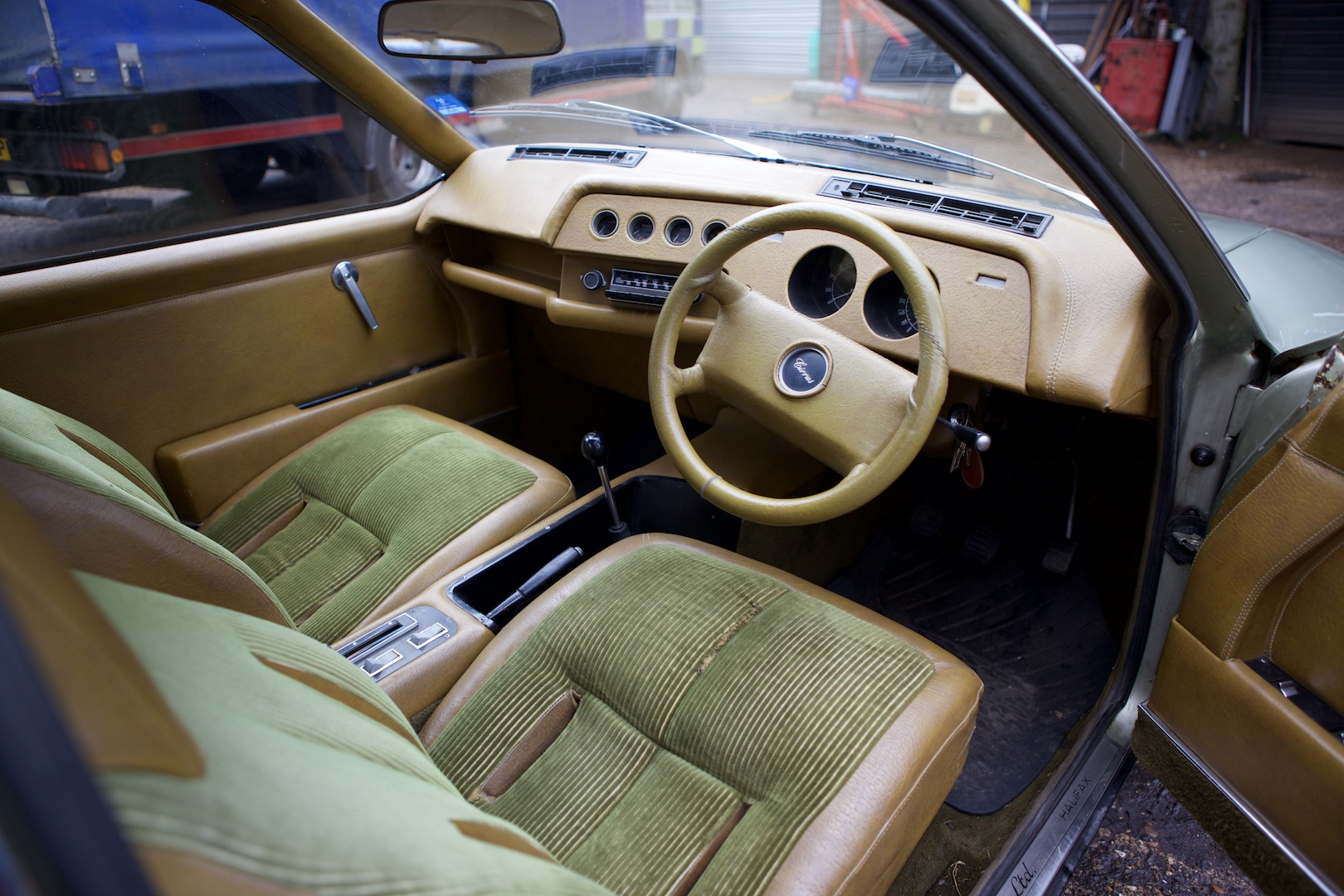 Ford Cirrus, Daily Telegraph Magazine competition car, built by Woodall Nicholson Ltd and Triplex Safety Glass Ltd. Designed by Michael Moore.